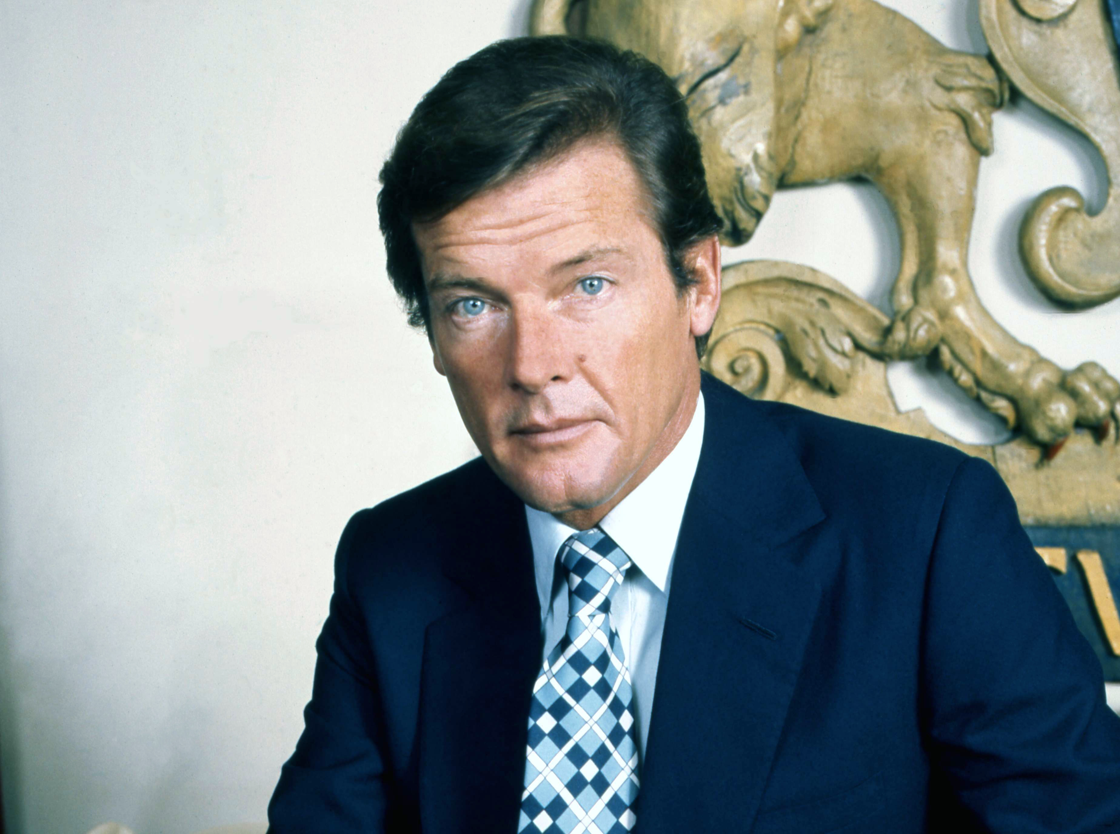 Crop of "File:Sir Roger Moore 3.jpg" - Sir Roger Moore at photographer's studio, Belgravia, London